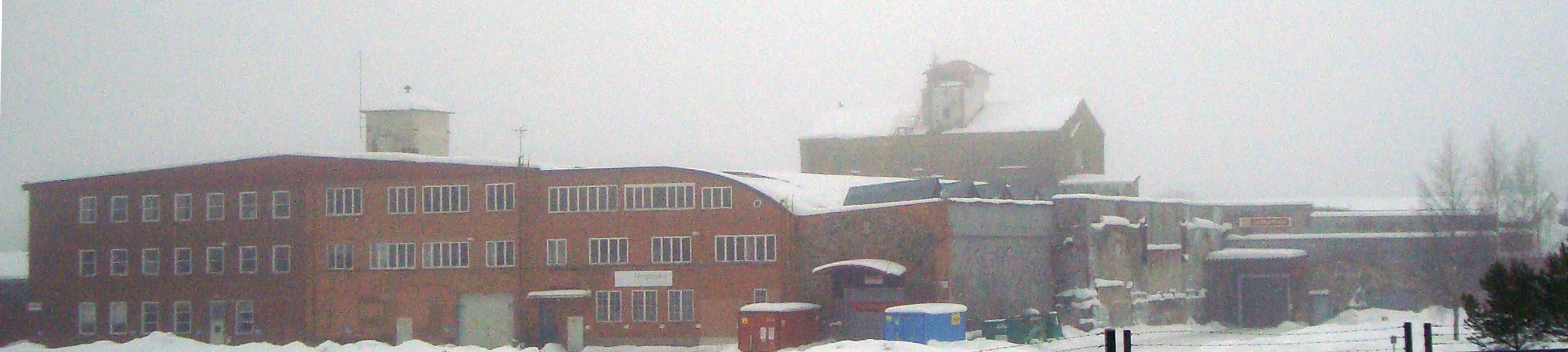 Adlibris book company, Morgongåva, Heby Municipality, Sweden